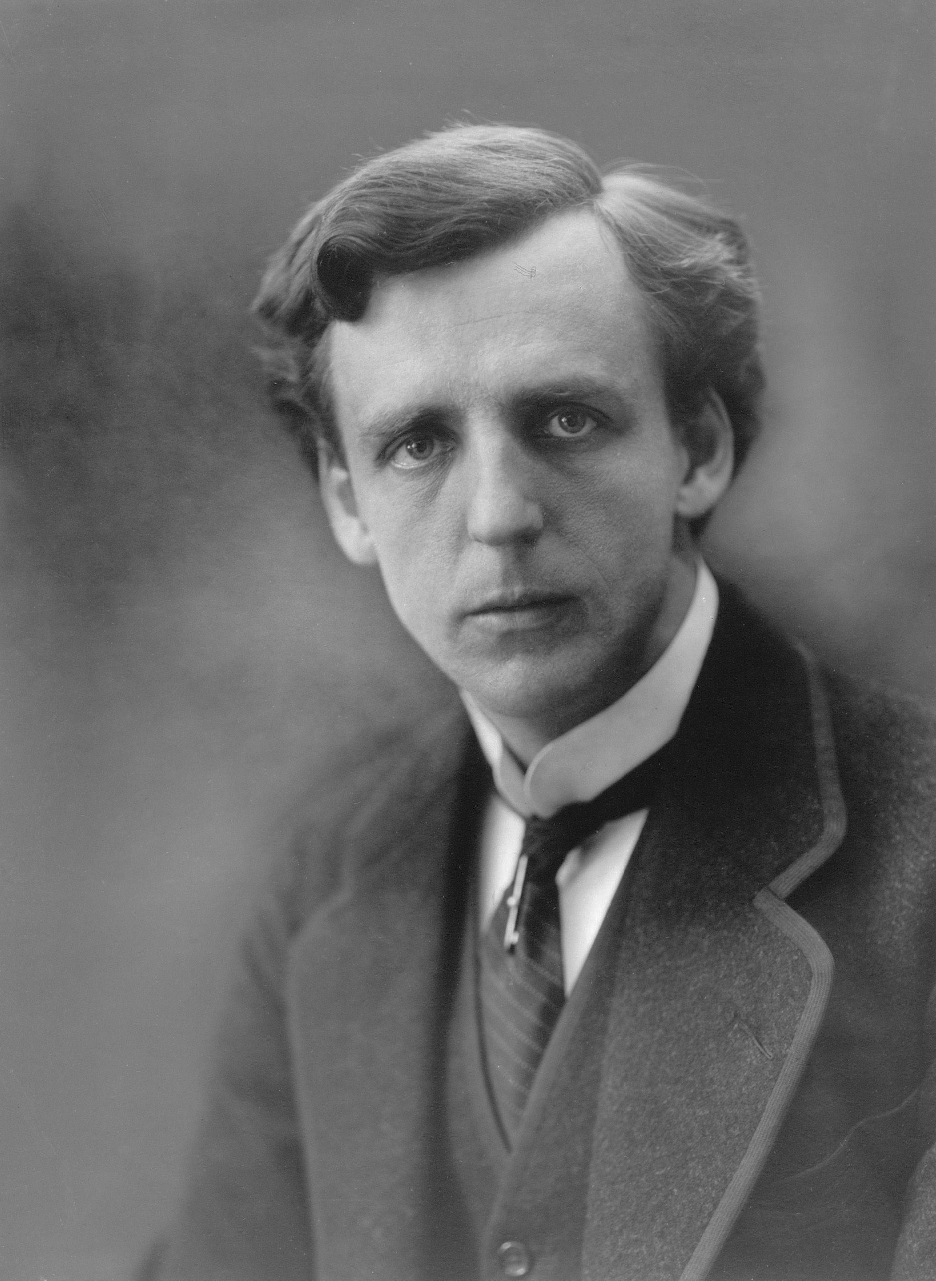 Eduard Verkade (1878-1961). Toneelspeler. 1913